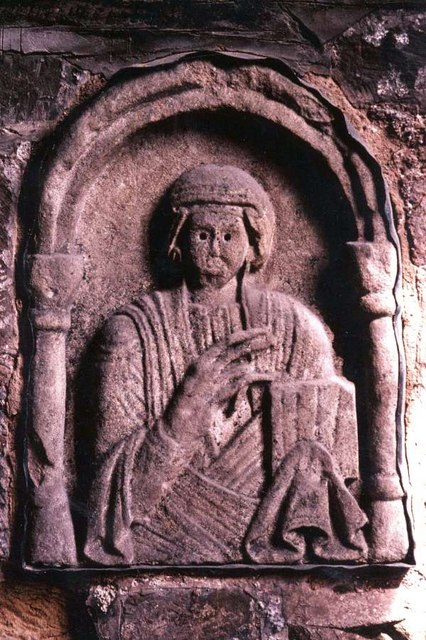 Anglo-Saxon relief of the Virgin Mary in SS Mary and Hardulph parish church, Breedon on the Hill, Leicestershire. Mercian school, about AD 800.